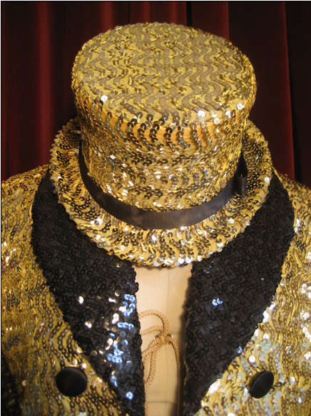 Gold sequined swallow-tail coat and top hat worn by fan and costumer, Mina Credeur of the Houston, Texas Rocky Horror performance group.